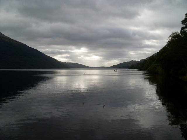 Loch Lomond from Tarbet Pier Not even grey skies can take away from the beauty of the Bonnie Bonnie Banks. Looking southeast towards Balloch and Luss.